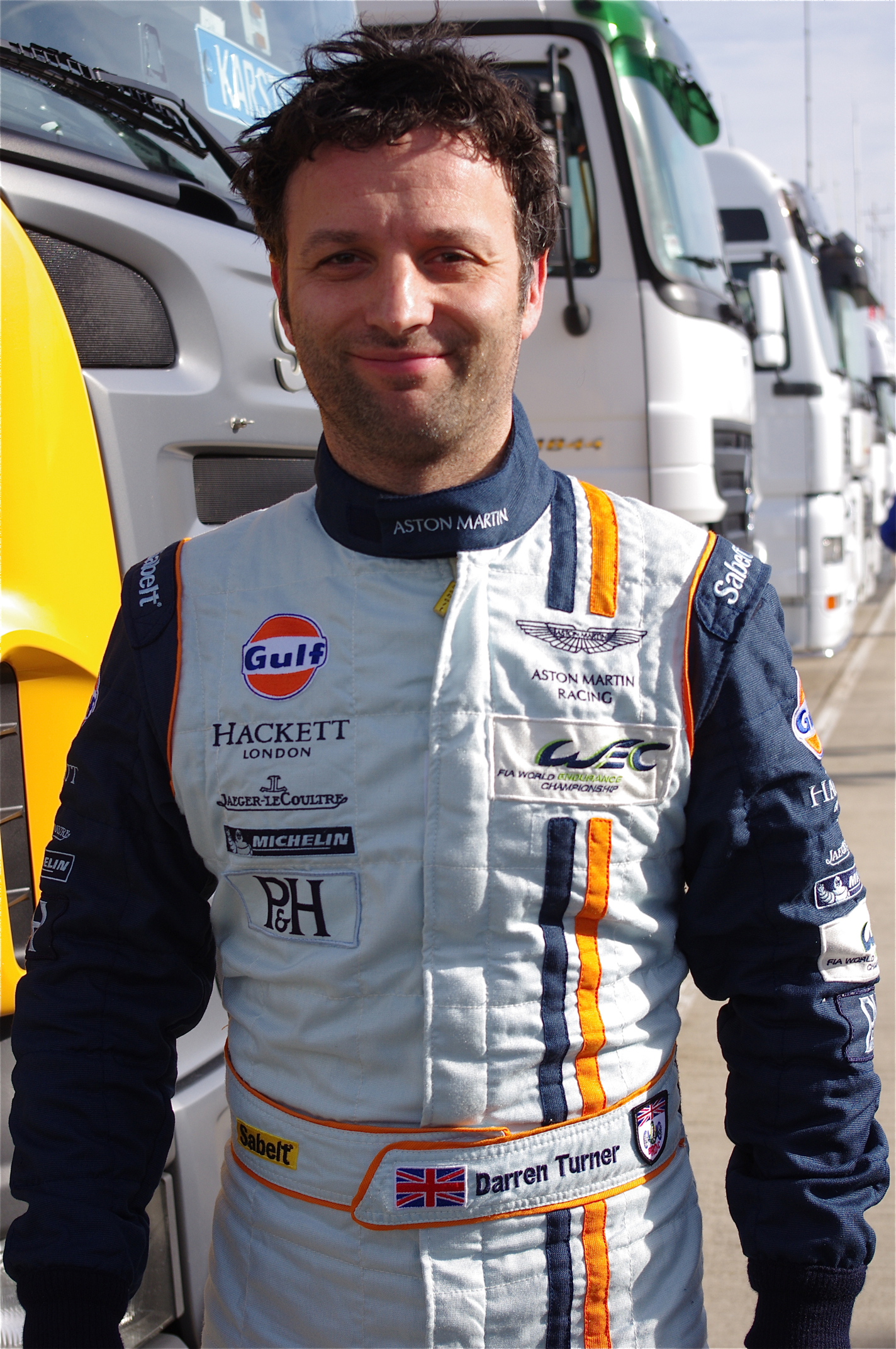 Darren Turner, Driver of Aston Martin Racing's Aston Martin Vantage V8